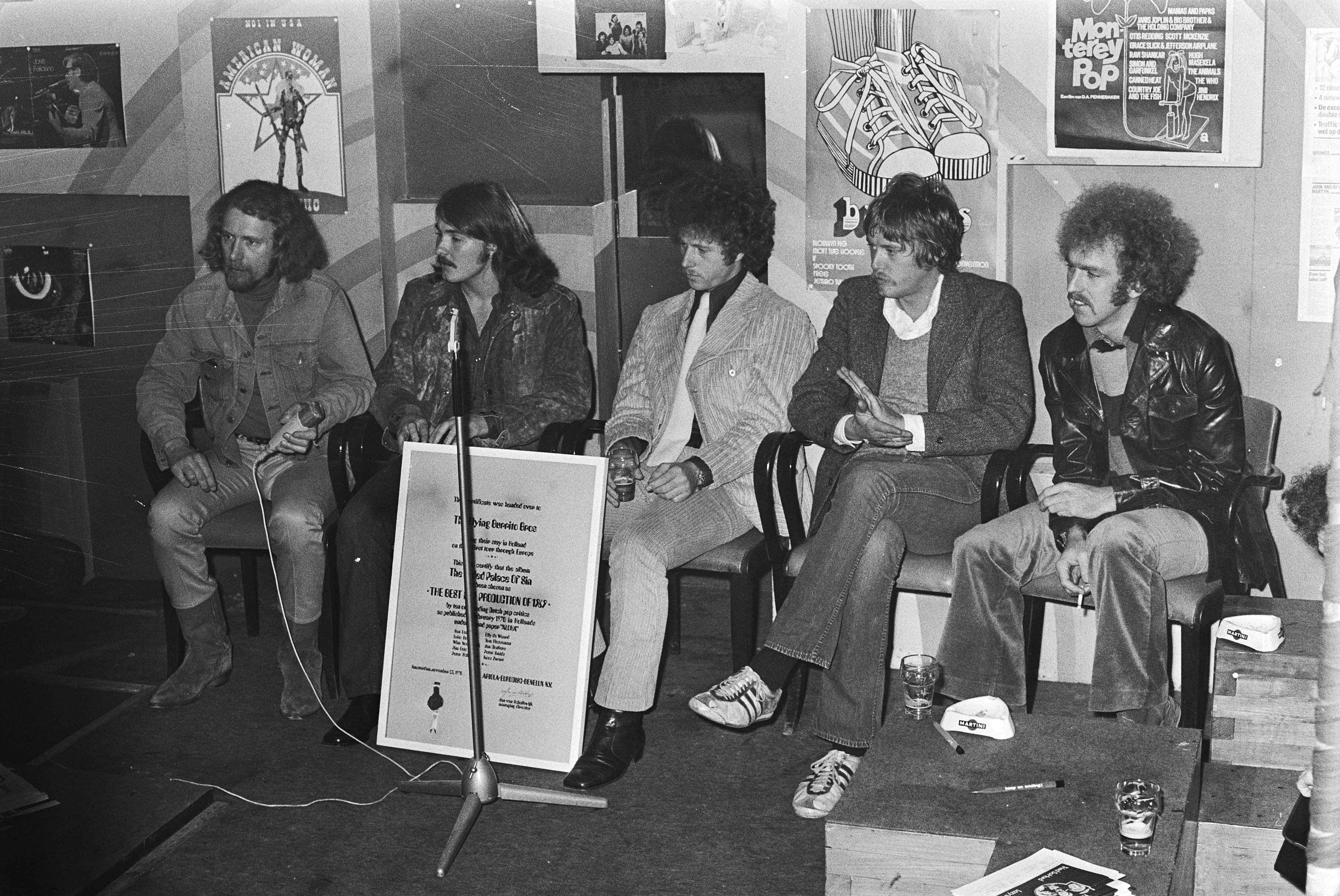 Flying Burrito Bros giving a press conference in the Birdsclub, Amsterdam (NL), 23 Nov. 1970. From left to right: Sneaky Pete Kleinow, Rick Roberts, Chris Hillman, Michael Clarke, Bernie Leadon